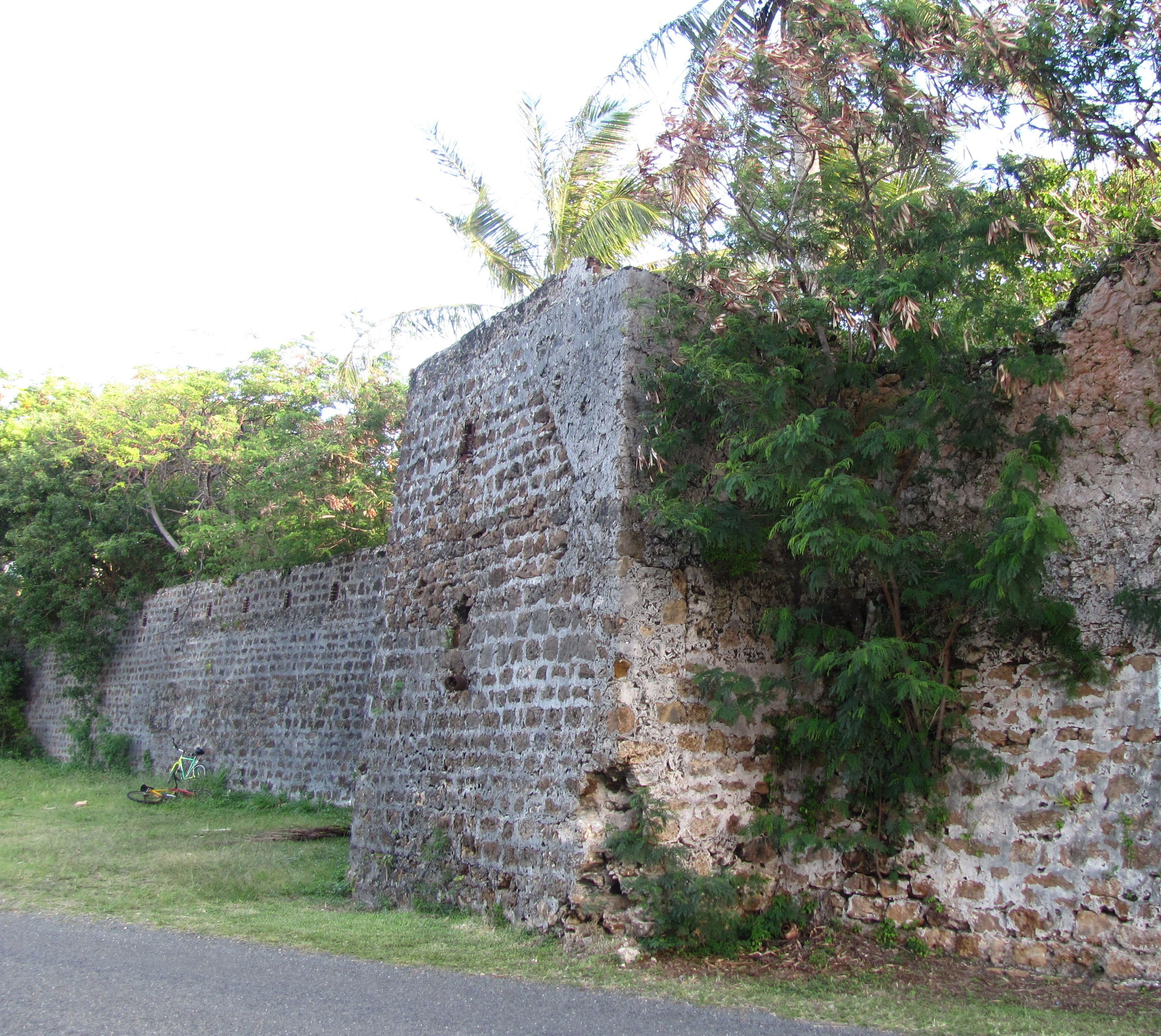 Former fortress, Kuto, L'Île-des-Pins, New Caledonia